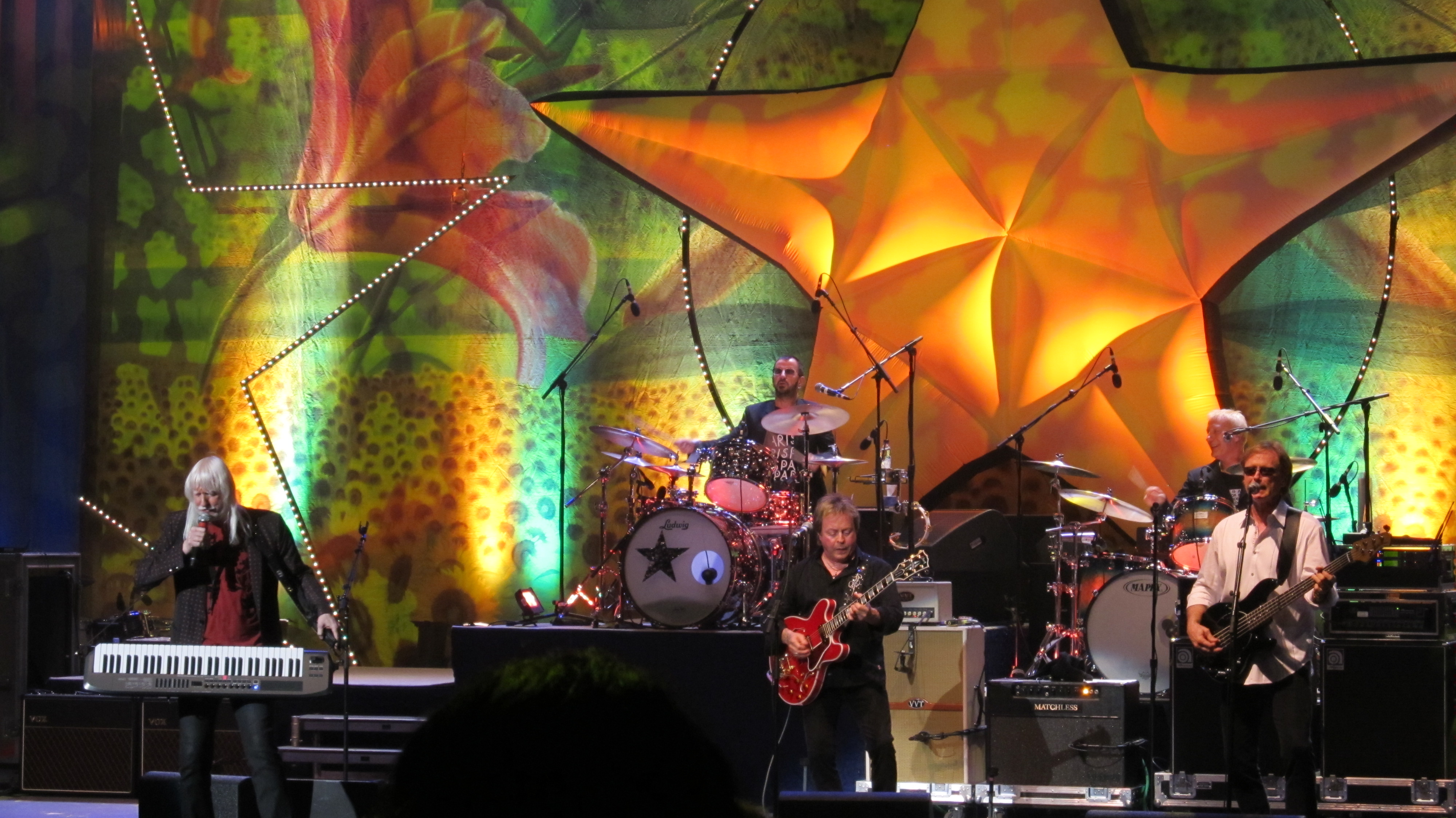 Ringo Starr concert in Paris June 26, 2011 : Ringo Starr and his All-Starr Band